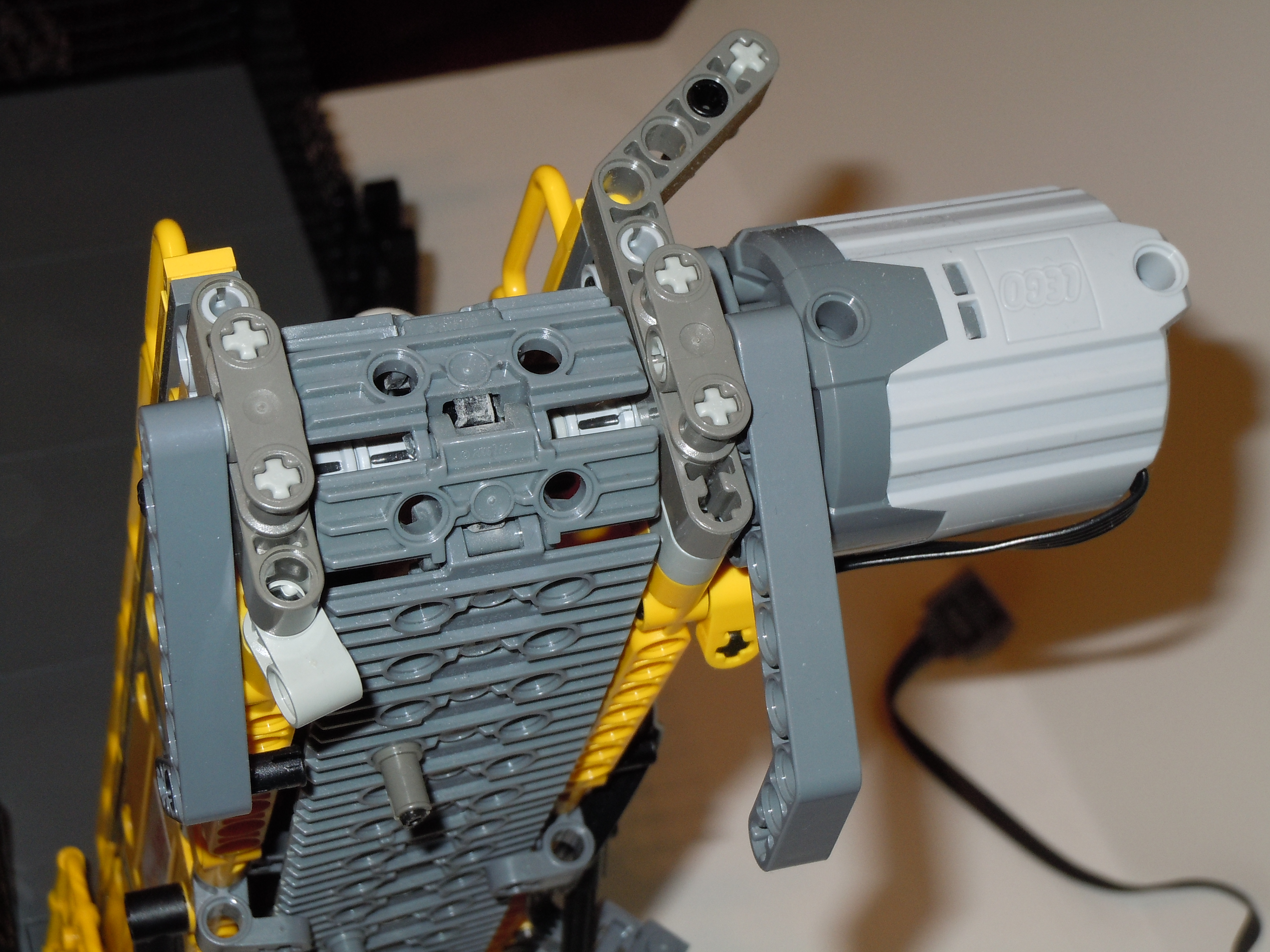 Closeup view of Lego motor and conveyor belt. The motor is a 9V Power Functions XL motor introduced in 2007.